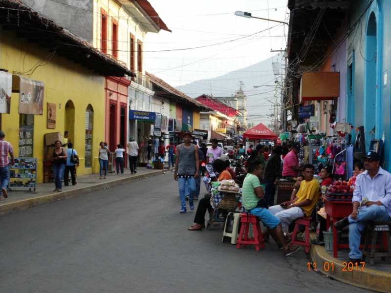 Calle Atravesada